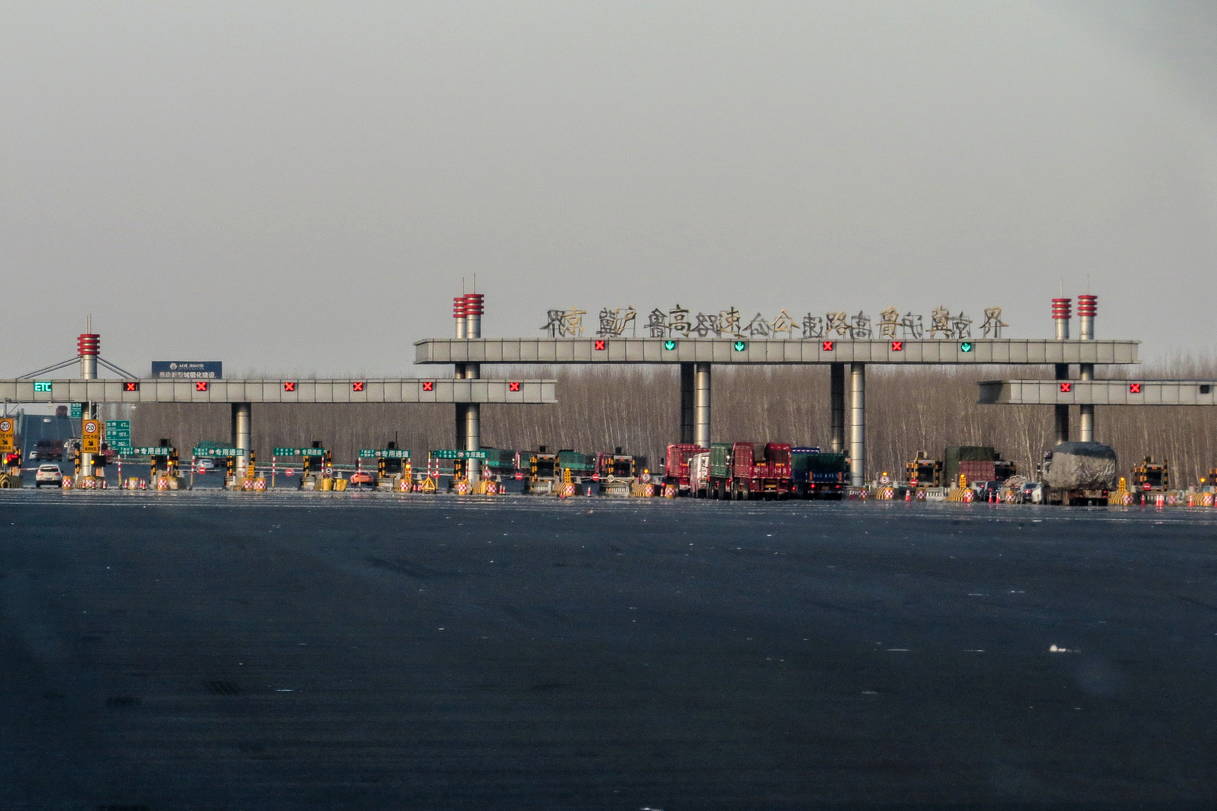 Exiting Laoling, Shandong. The signs of ETC should be all yellow (like Beijing does) to avoid confusion.